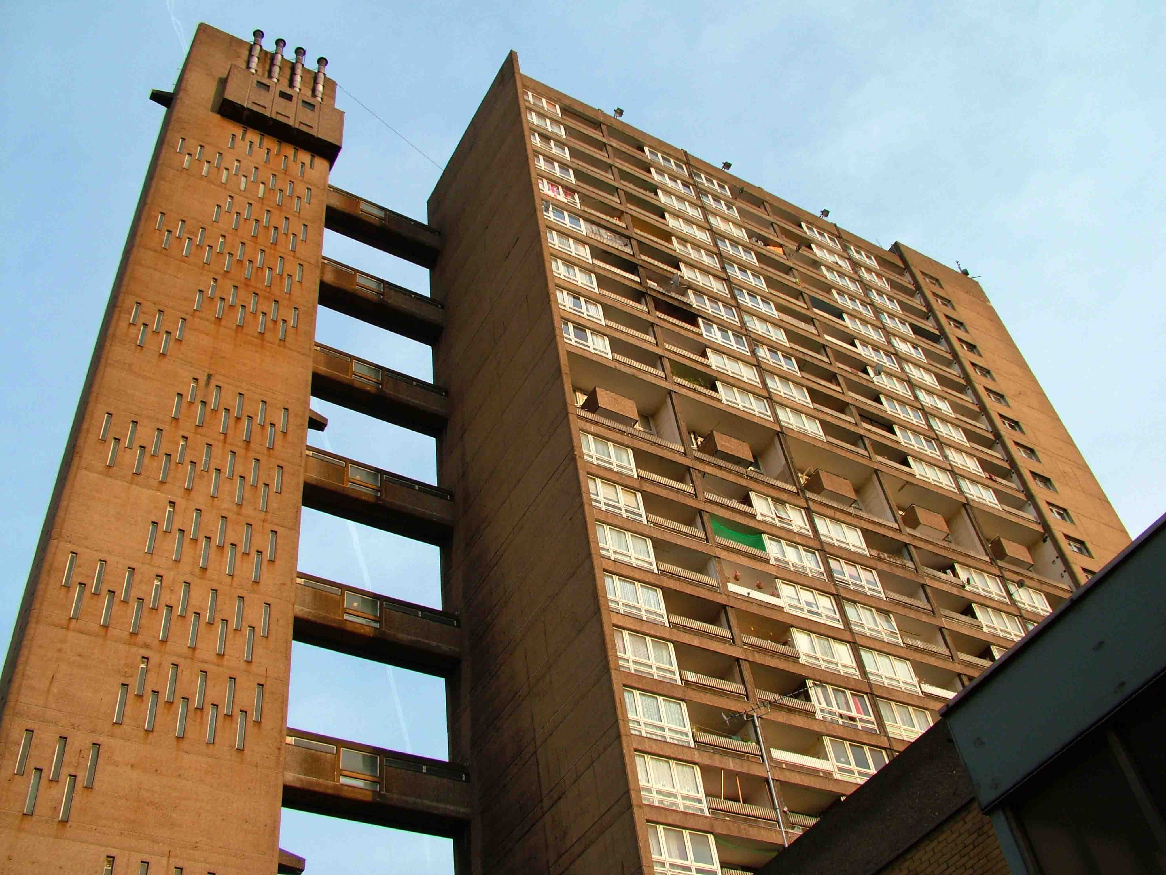 Balfron Tower E14, Poplar, London, UK.